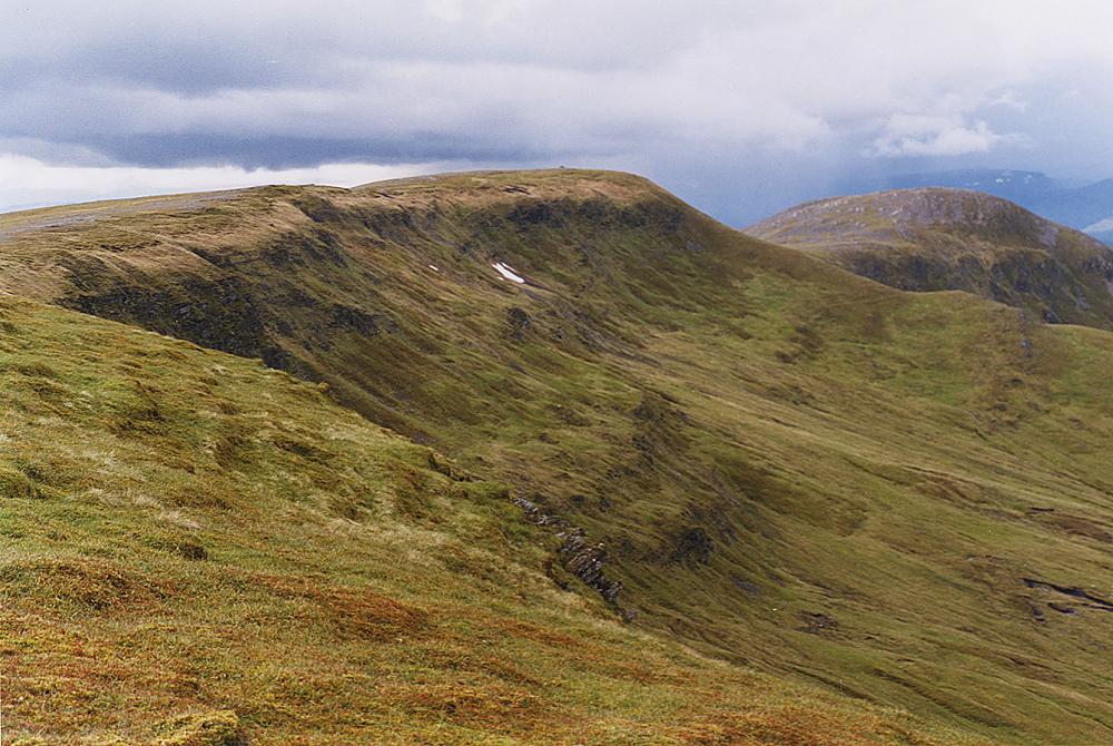 View towards the summit of Meall Buidhe Looking along the edge above Glas Choire to the distant summit cairn. Garbh Meall to the right looks higher but is lower.